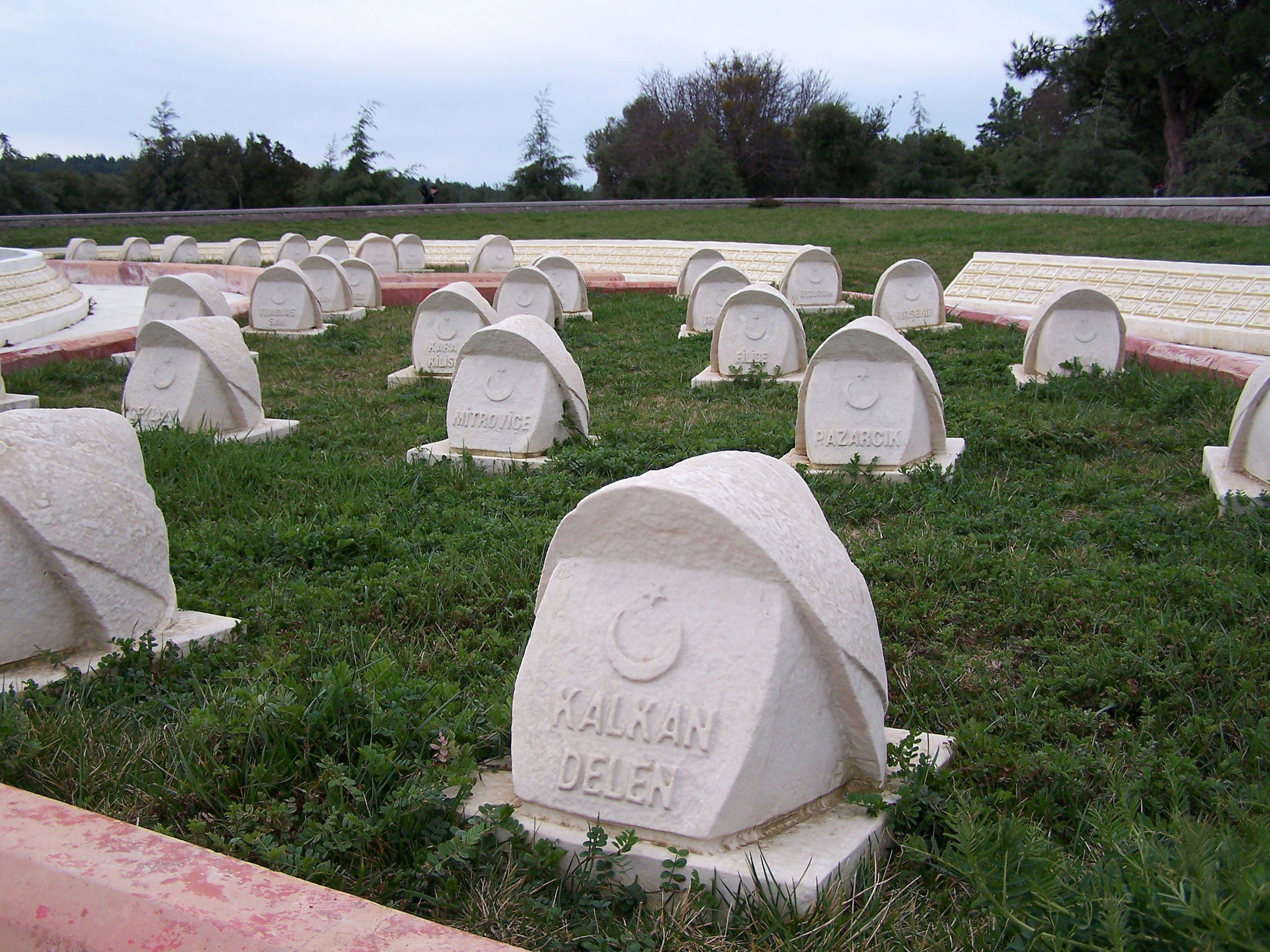 One of the Ottoman Turkish military cemeteries in Çanakkale, Turkey